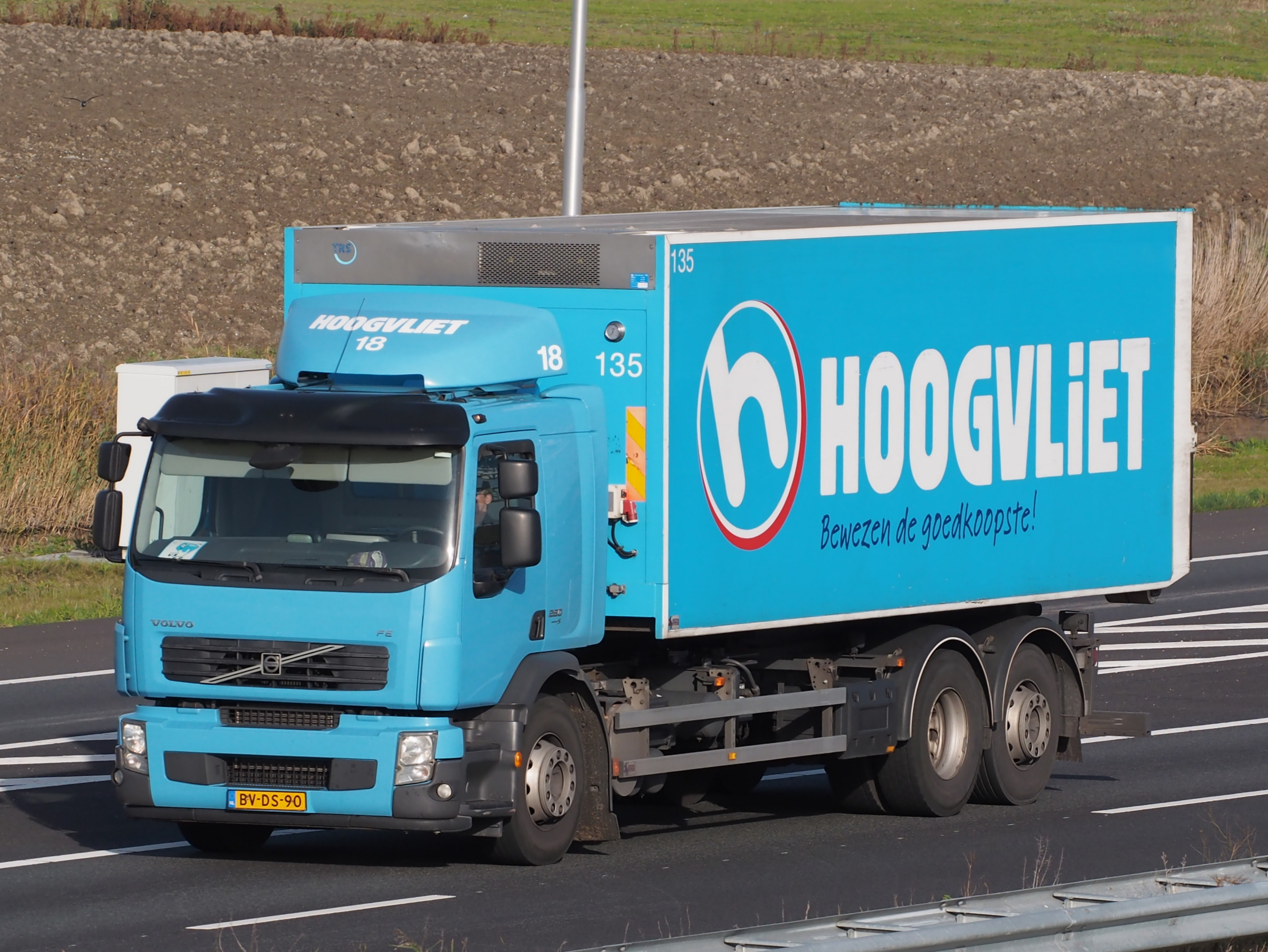 Photographed on the A4 near Hoofddorp, the Netherlands.